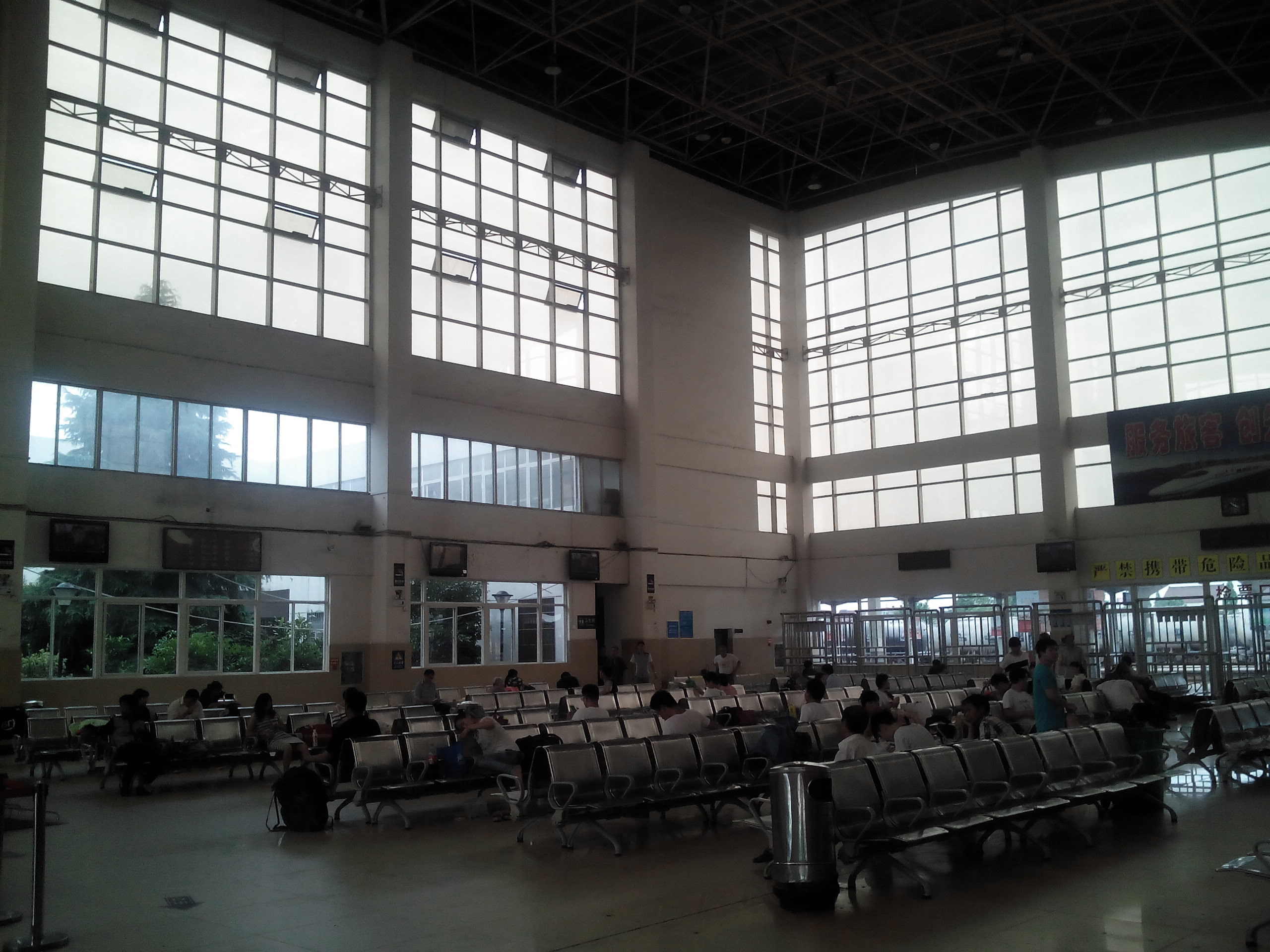 Waiting Room of Changxingnan Railway Station